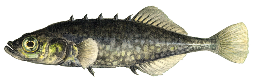 Brook stickleback